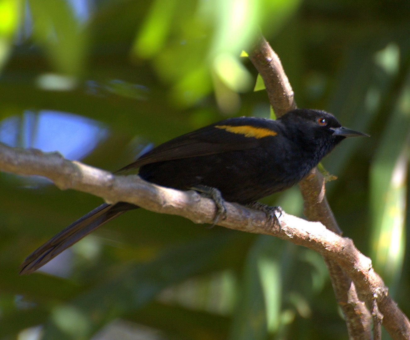 Variable Oriole (Icterus pyrrhopterus)[1][2]